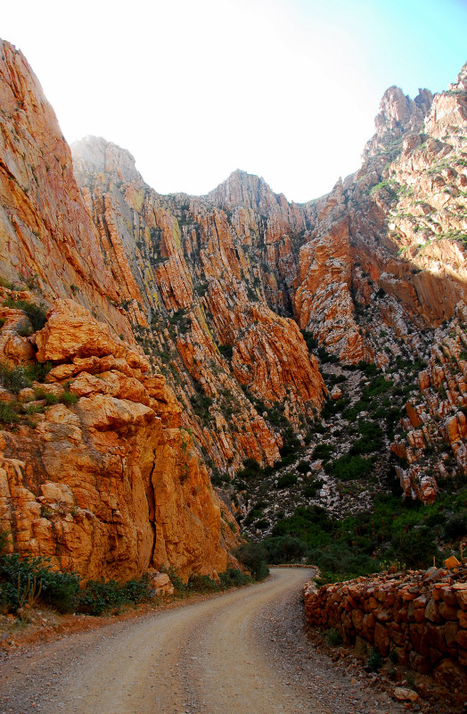 Leaving the Swartberg pass, 8km before arriving in Prince Albert.